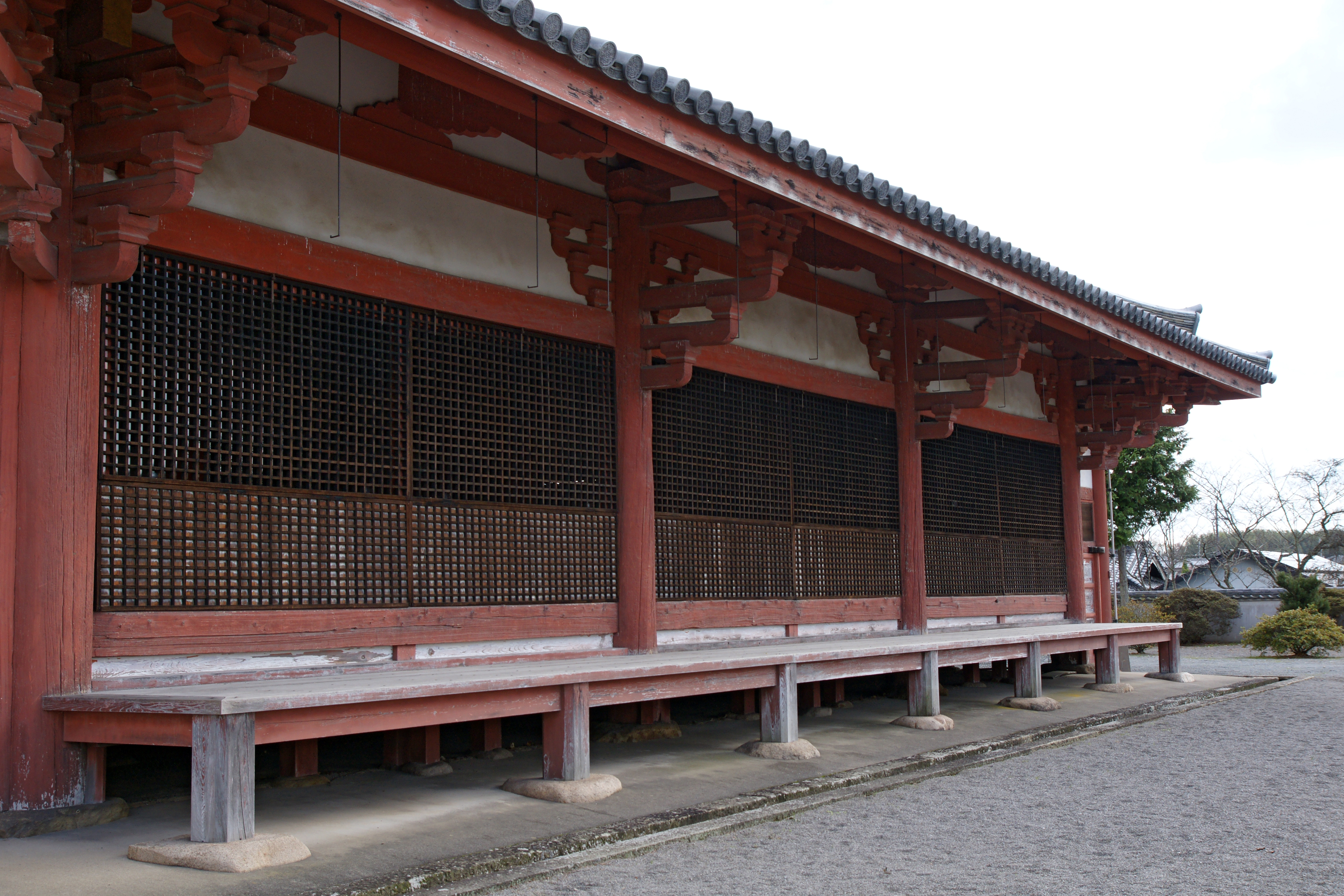 Jododo of Jōdo-ji Buddhist temple (Japan's National Treasure) in Ono, Hyogo prefecture, Japan. This architecture in Daibutsuyō (大仏様/Daibutsu style) that is combining design of Japan and China. It was built in 1194.